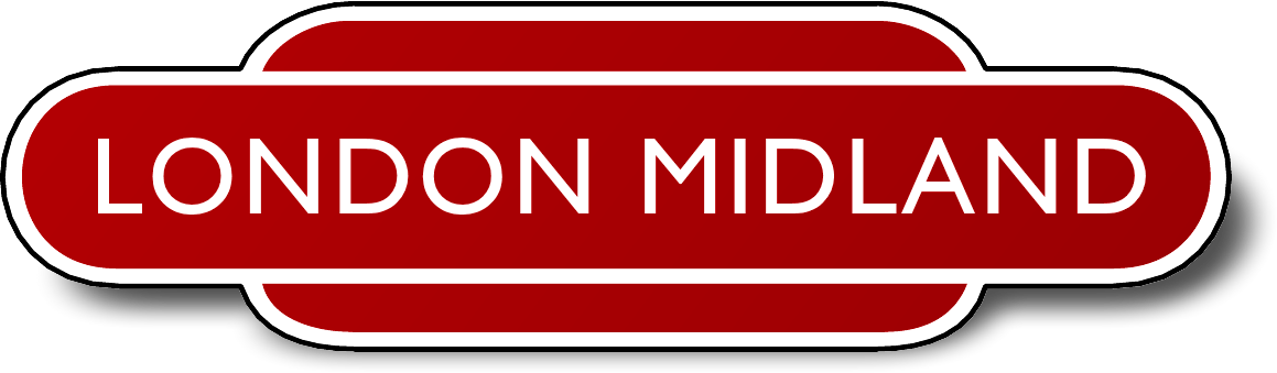 Self-made derivative of the railway station signage used by the British Transport Commission from nationalisation of the railways until the "British Rail" rebrand in the 1960s. Design based on the non-trademarked and not copyrightable station sign shape, with colours taken from standard reference works about the totems in use at the time.